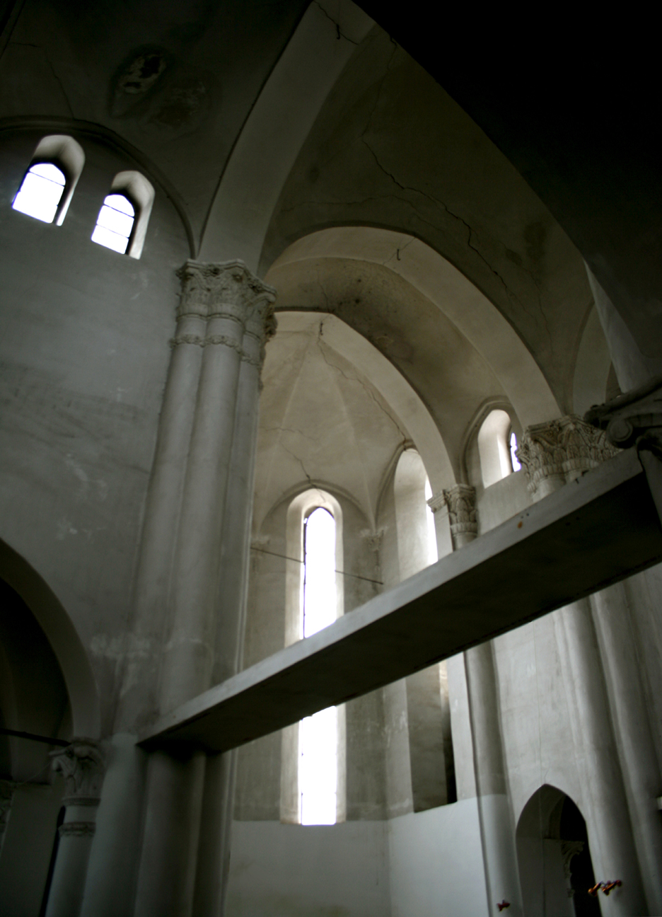 San Lasar church in Tabriz.